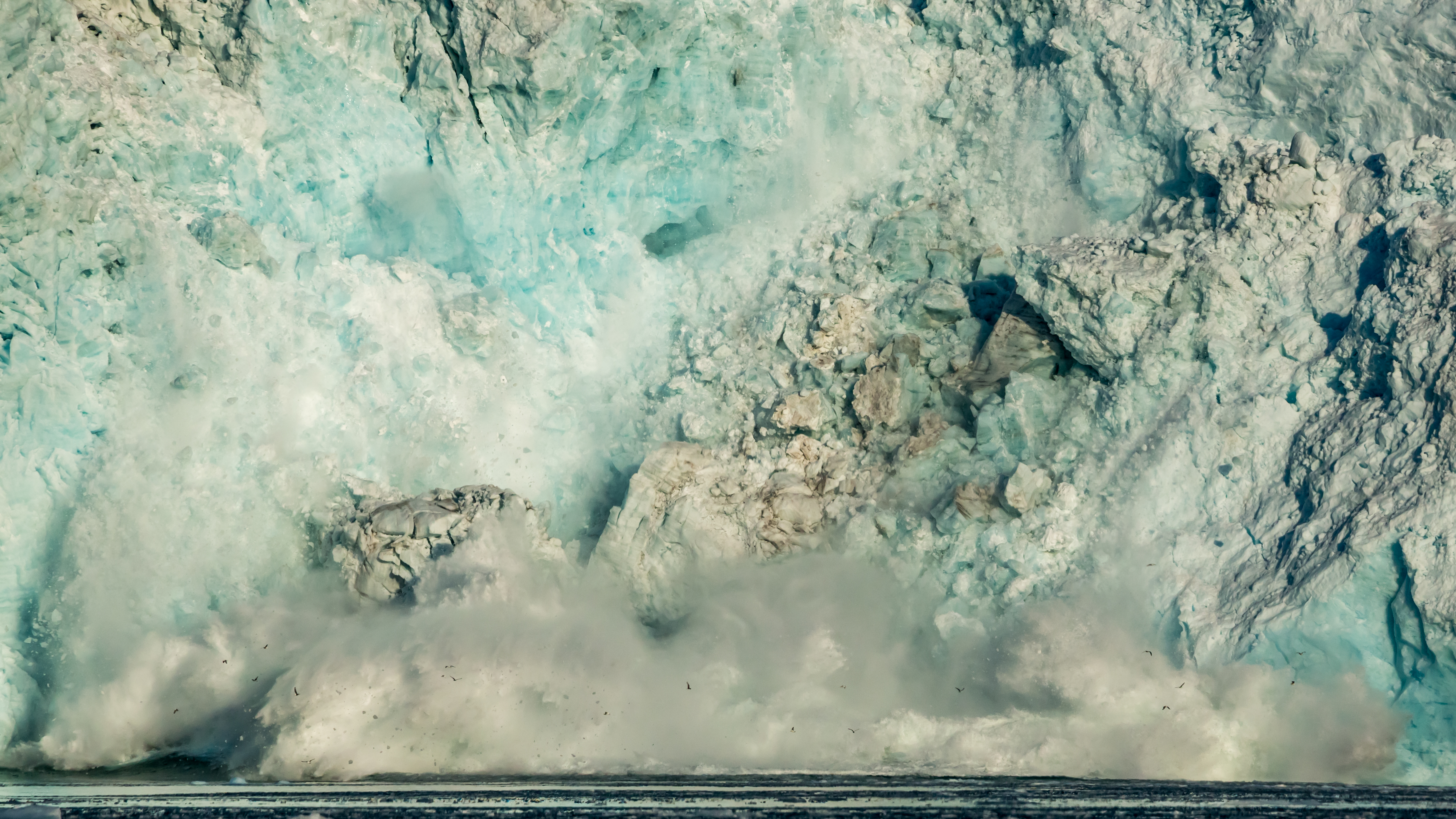 An approximately 250 m long part of the glacier front of the Svitjordbreen breaks off and causes a small tsunami and countless little ice floes and icebergs in the waters of the fjord.